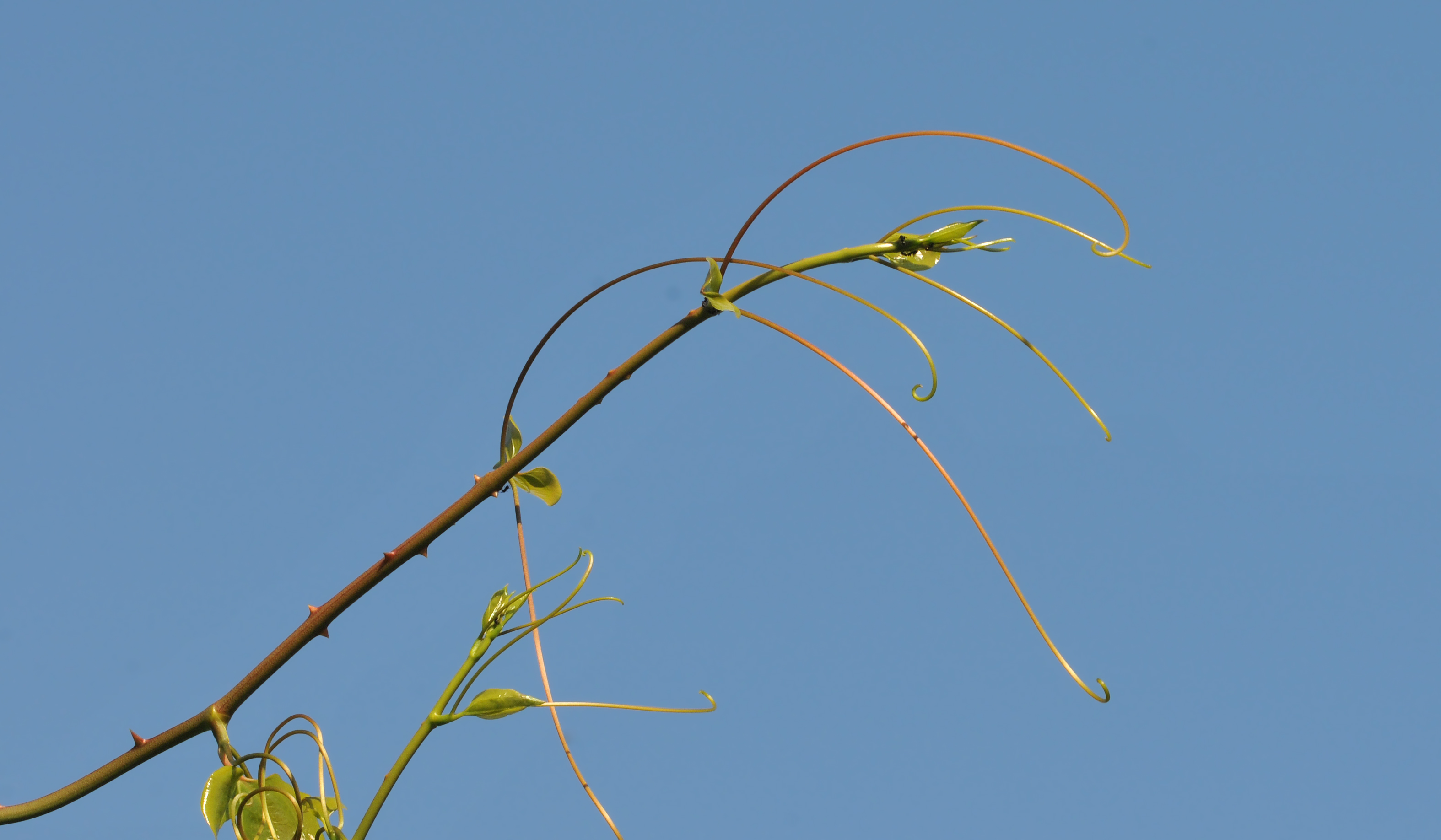 Fresh shoot of Smilax excelsa is used as local food in Black Sea Region in Turkey.It has many vernacular names in Turkey such as Diken ucu (Giresun), merulcan (Giresun), merucen (Giresun), melocan, melvocan, öz dikeni (Trabzon), zimbilaçi, zimilaci, zimilas (Rize)